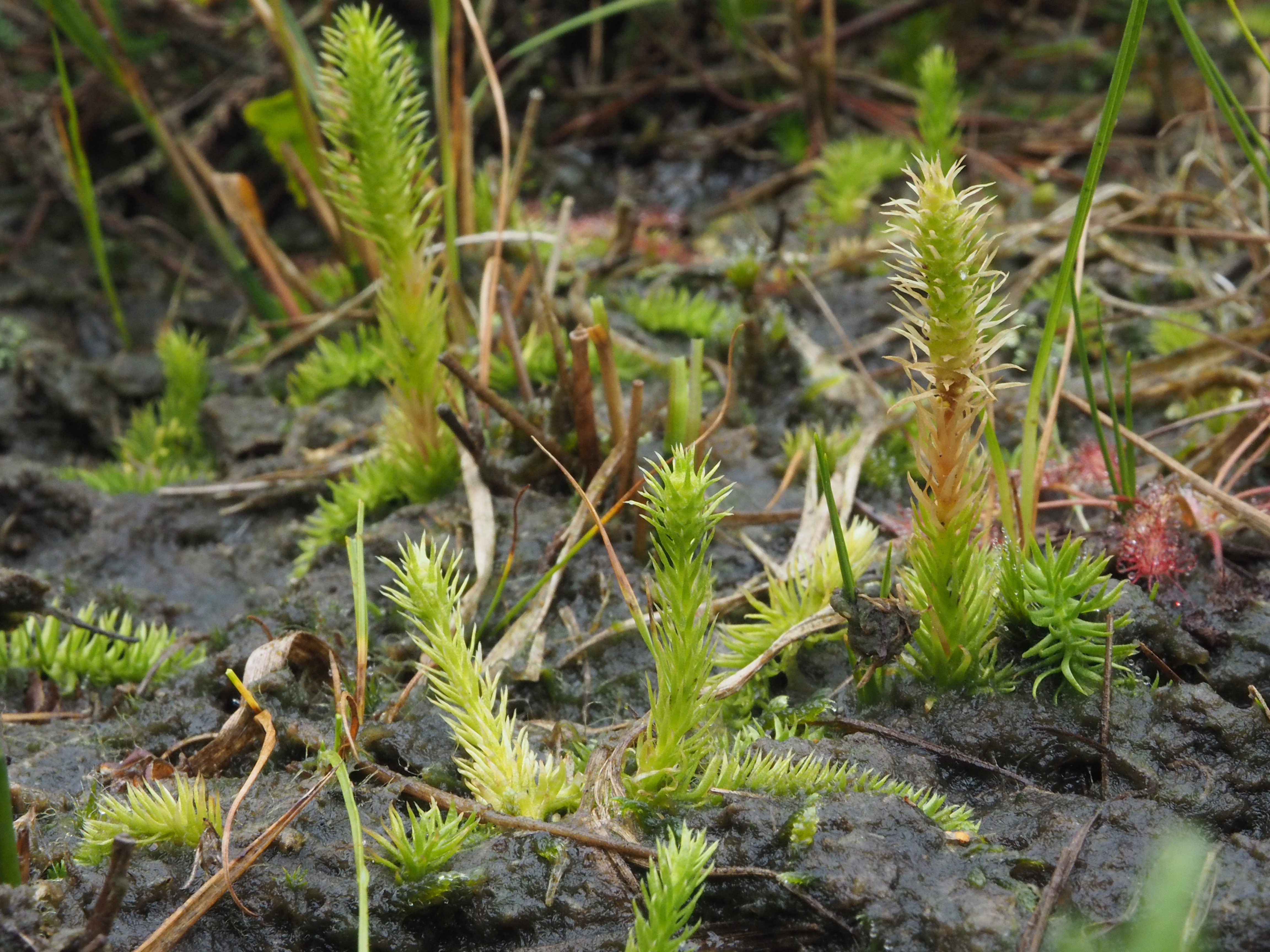 Northern bog club moss (Lycopodiella inundata) in Südheide Nature Park